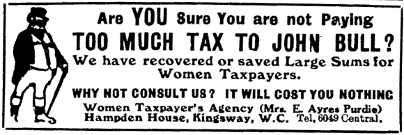 An ad for the Women's Taxpayer Agency of Ethel Ayres Purdie, published in the british pro-suffrage journal Vote, 1913.